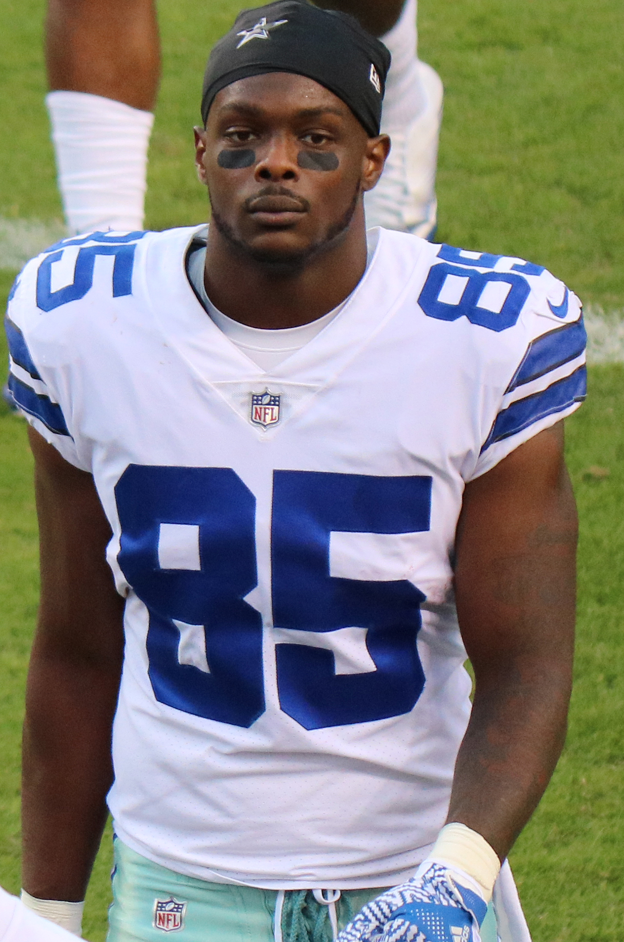 Noah Brown, a player on the National Football League.